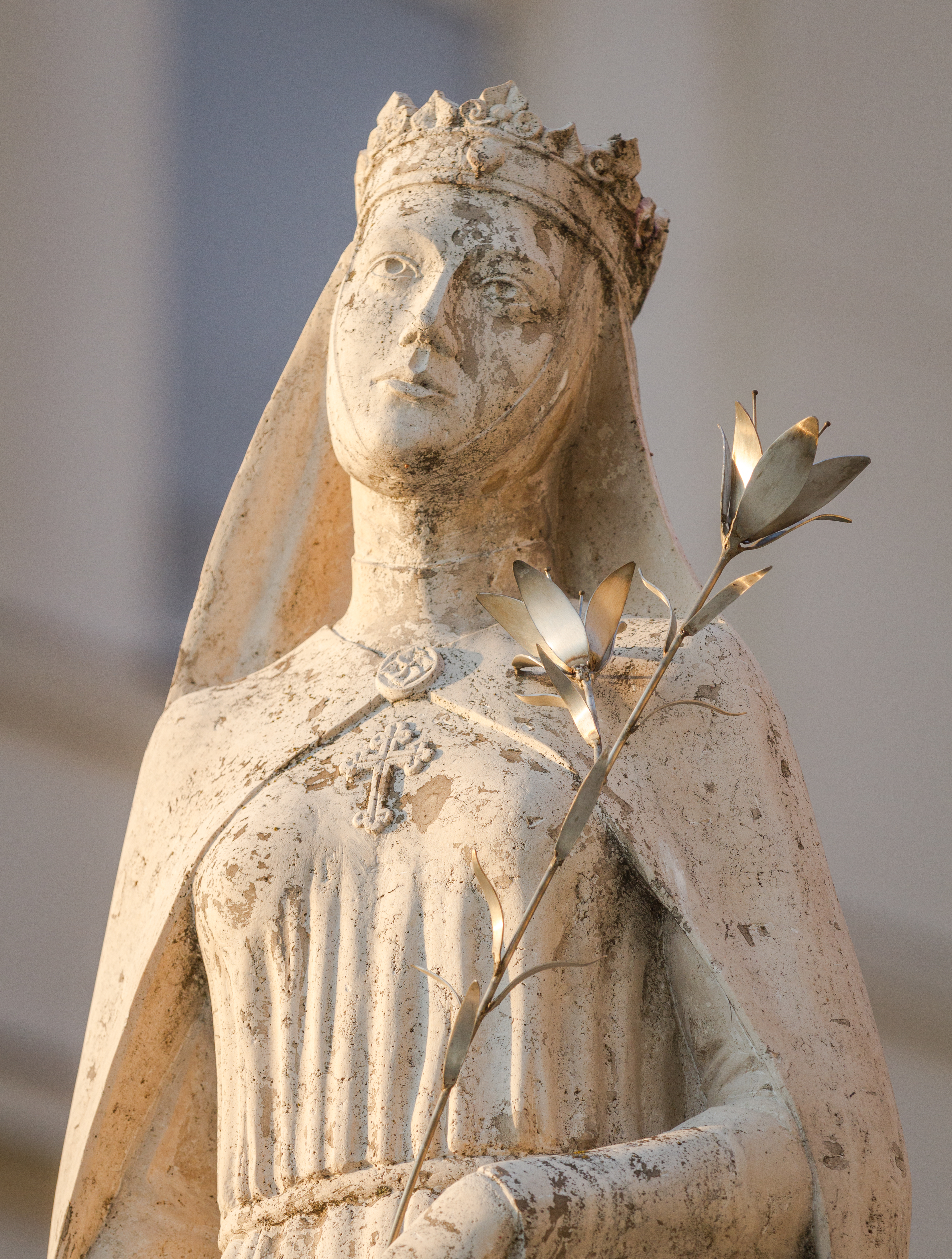 Szent Kinga statue at the Inner City Parish Church of Our Lady, Budapest, Hungary.